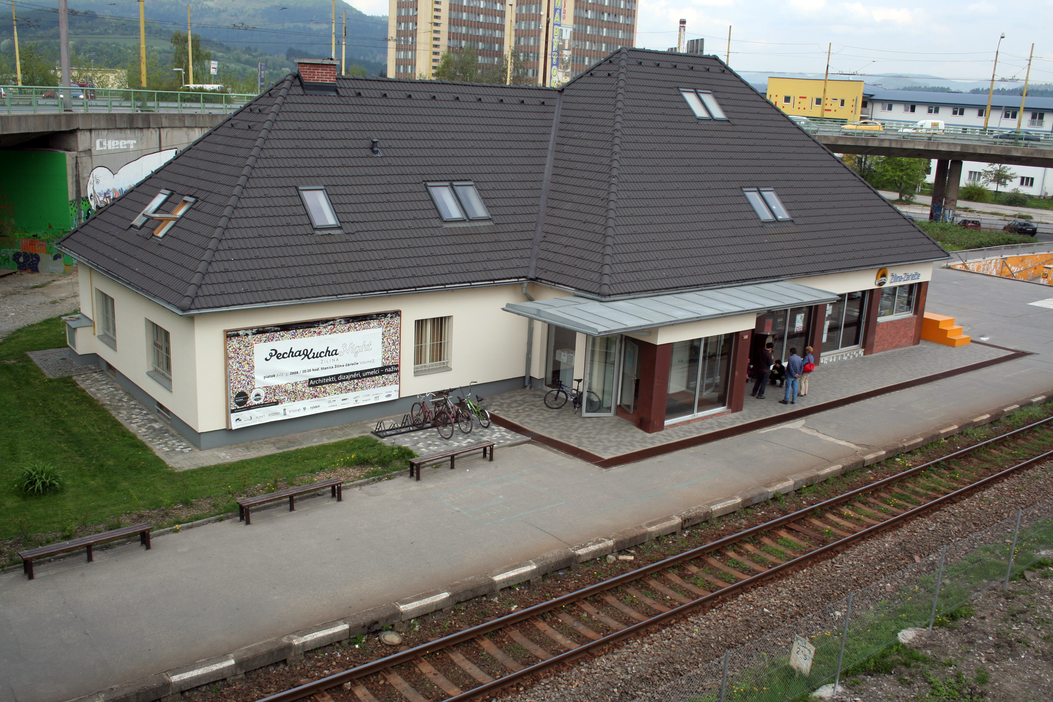 Cultural center Stanica in Zilina, Slovakia